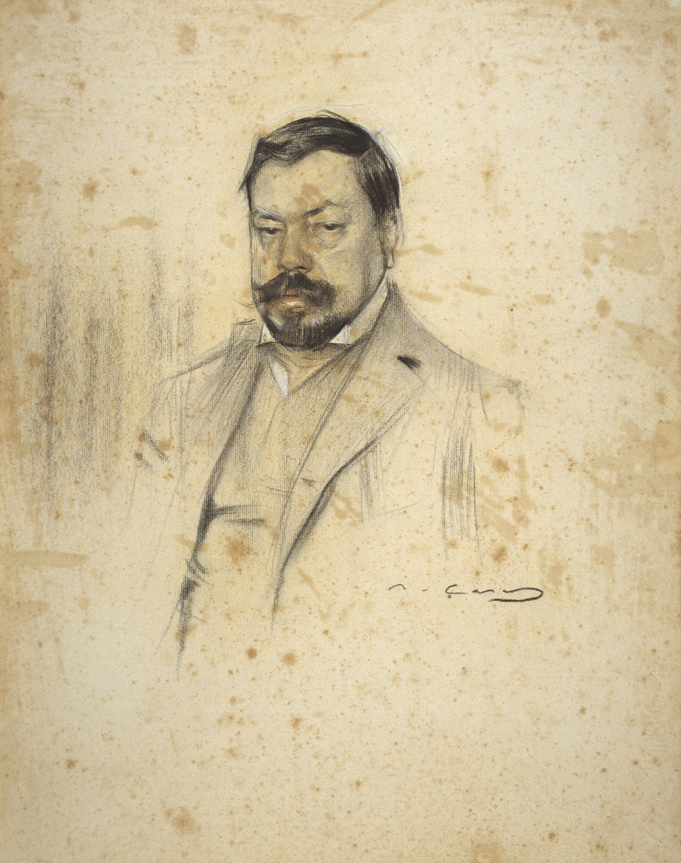 Portrait by Ramon Casas conserved at MNAC in Barcelona. Imagen 009